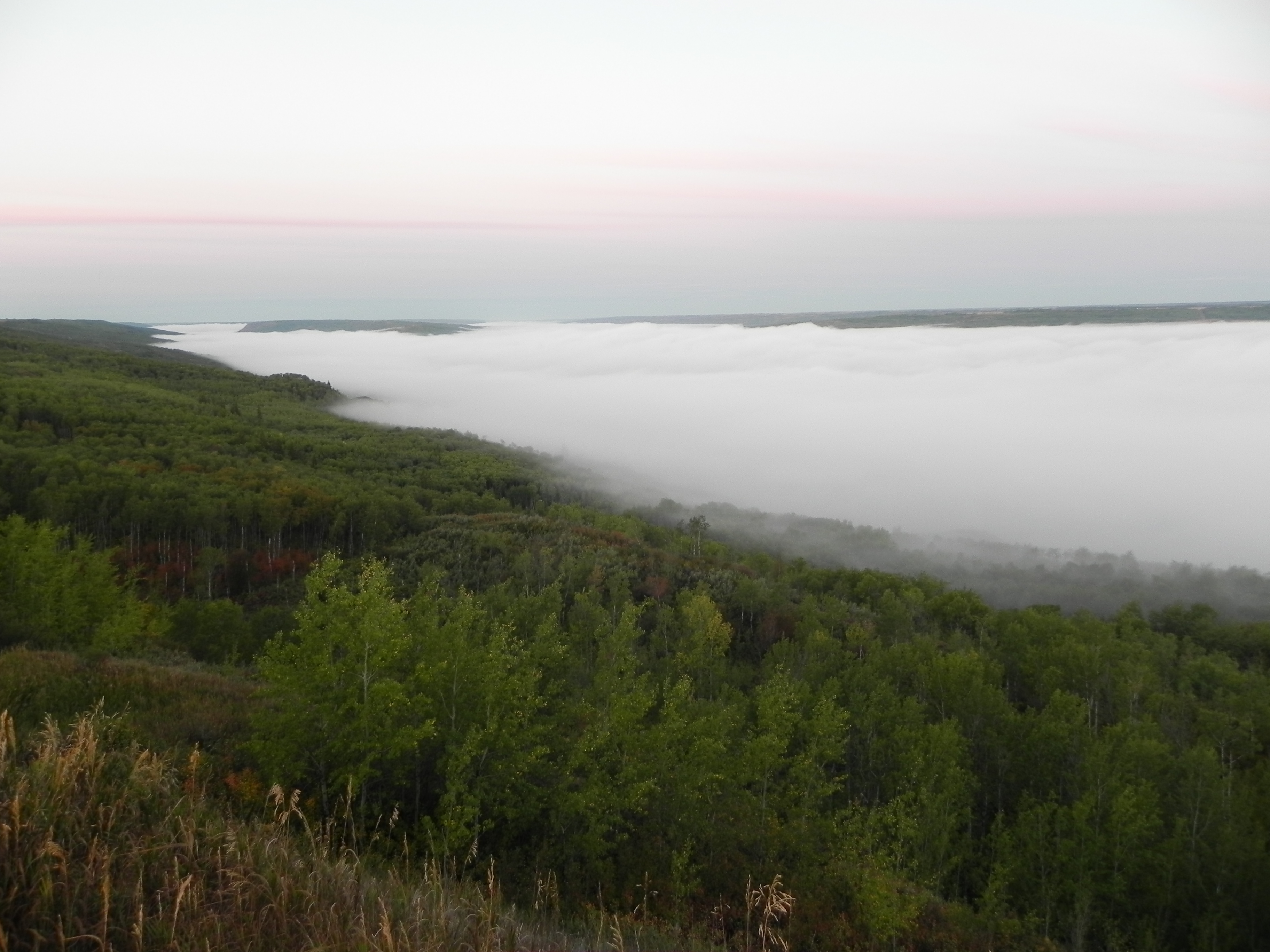 Early morning fog in Peace River valley at its confluence with Smoky River